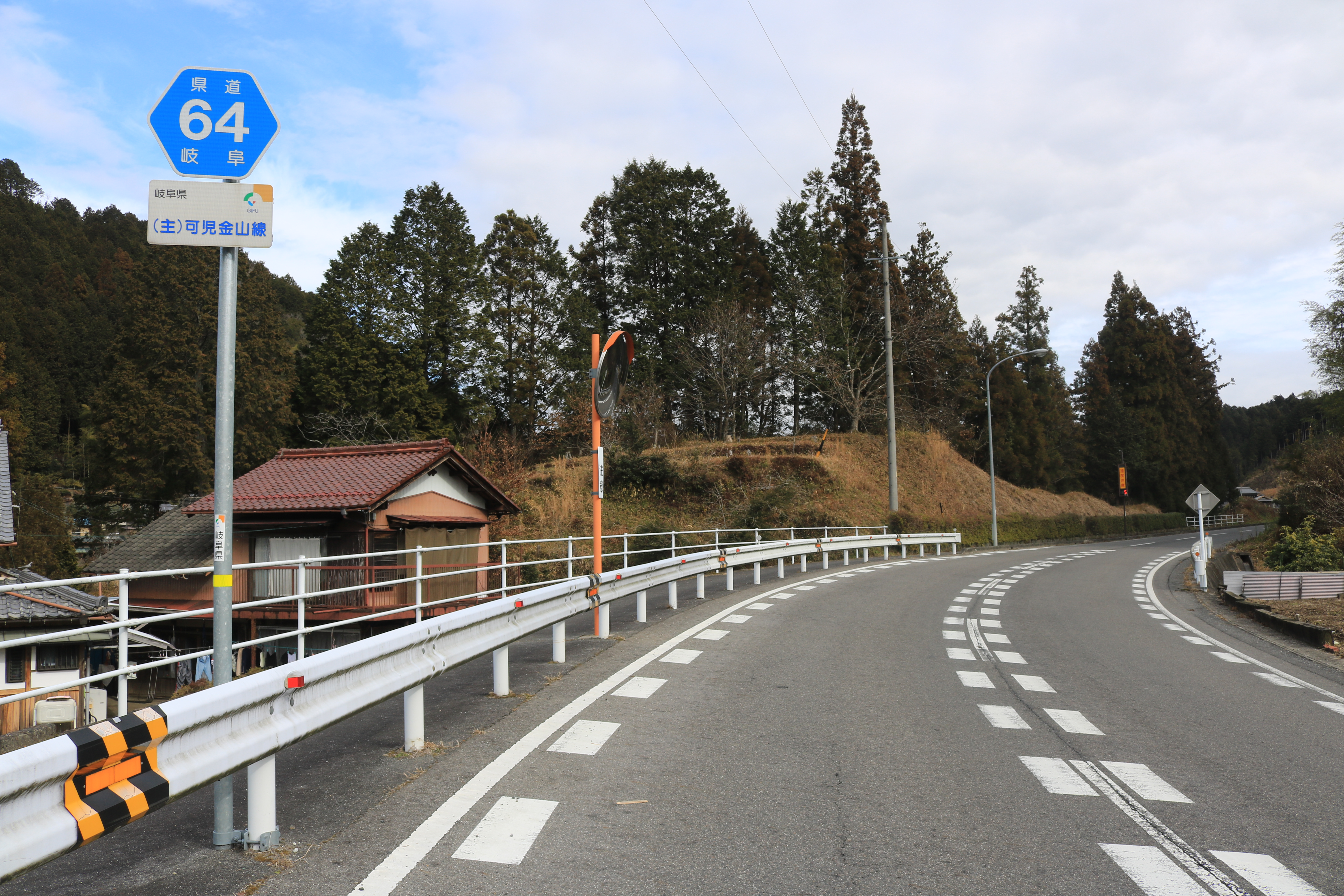 Gifu Prefectural Road Route 64 in Kabuchi, Hichiso, Gifu prefecture, Japan.